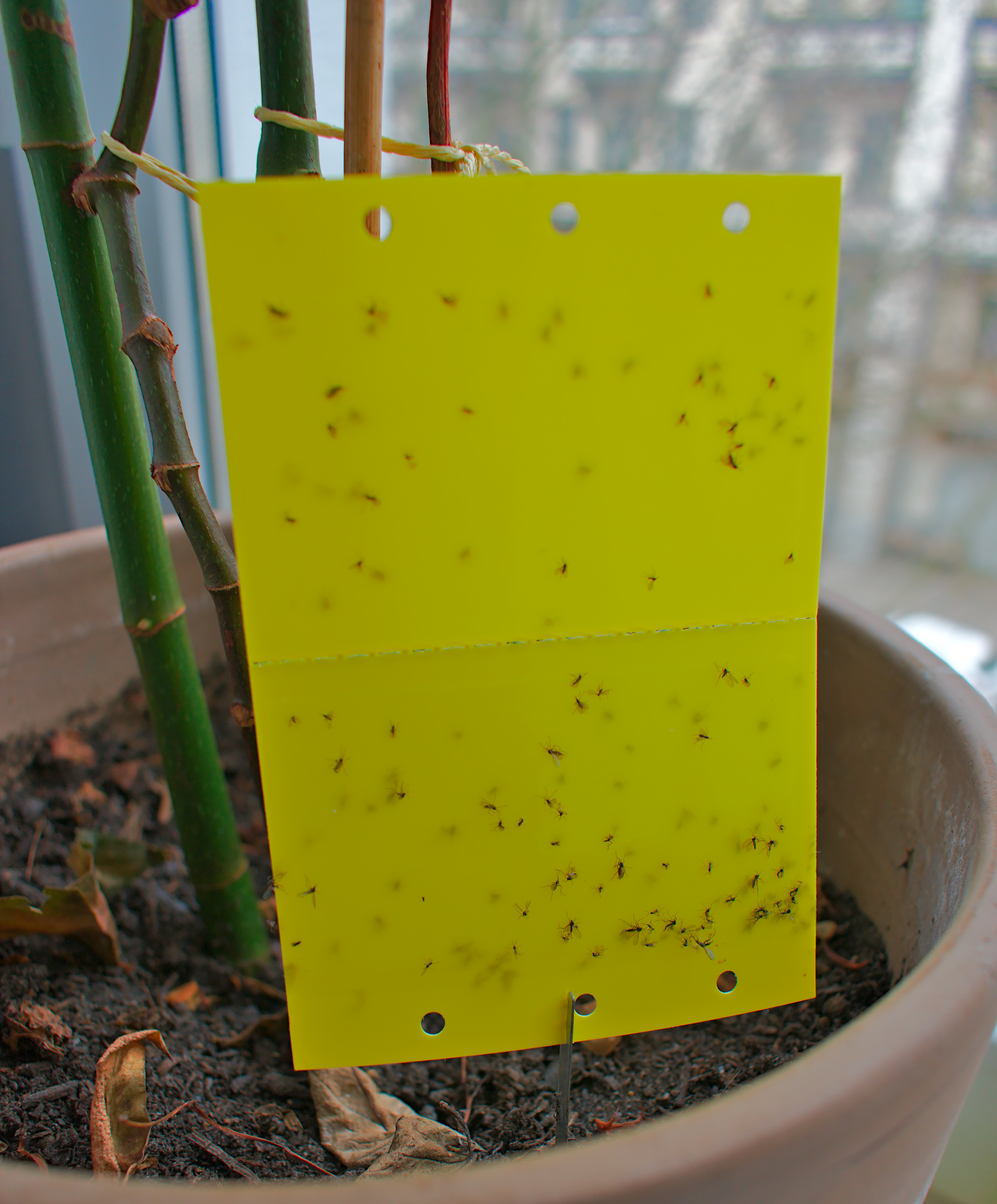 A houseplant with fly sticker filled with Sciaridae (dark-winged fungus gnats).